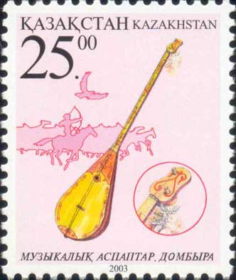 An image of a Dombra on a Kazakhstan stamp, 25, 2003